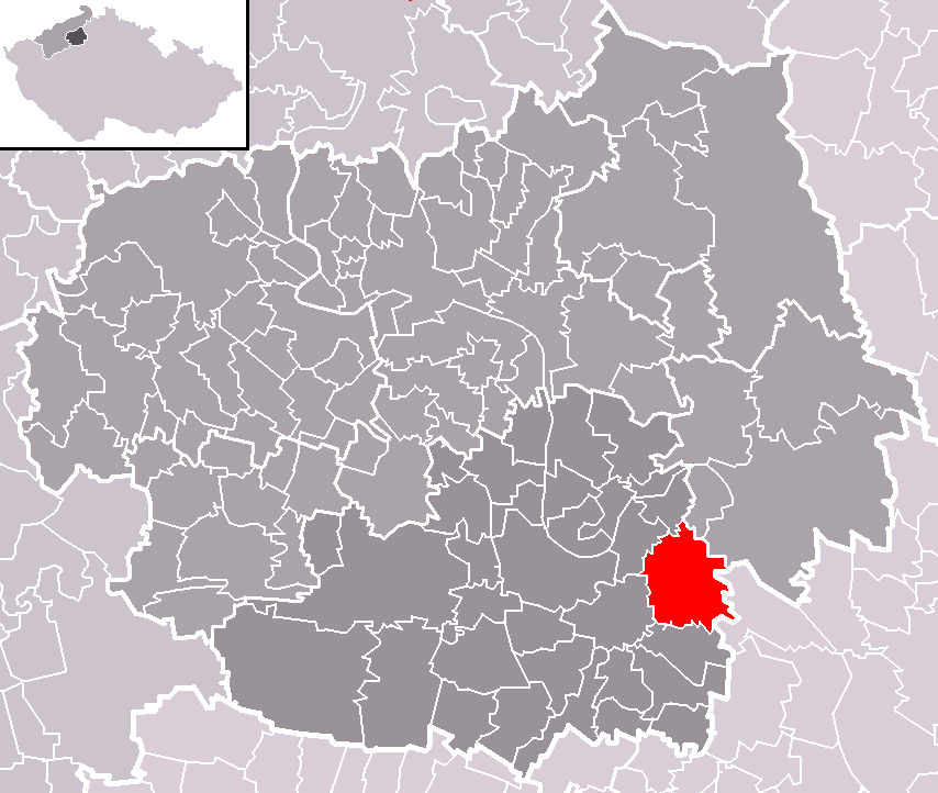 Location of Bechlín municipality within Litoměřice District and administrative area of Roudnice nad Labem as a Municipality with Extended Competence.